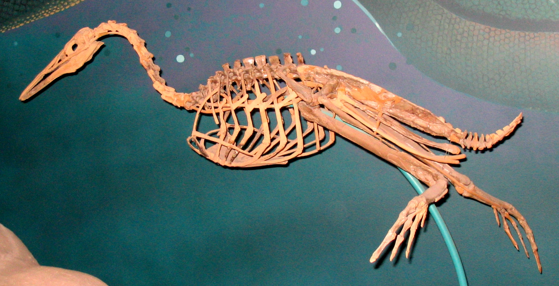 Hesperornis regalis skeleton at the Smithsonian museum of Natural History